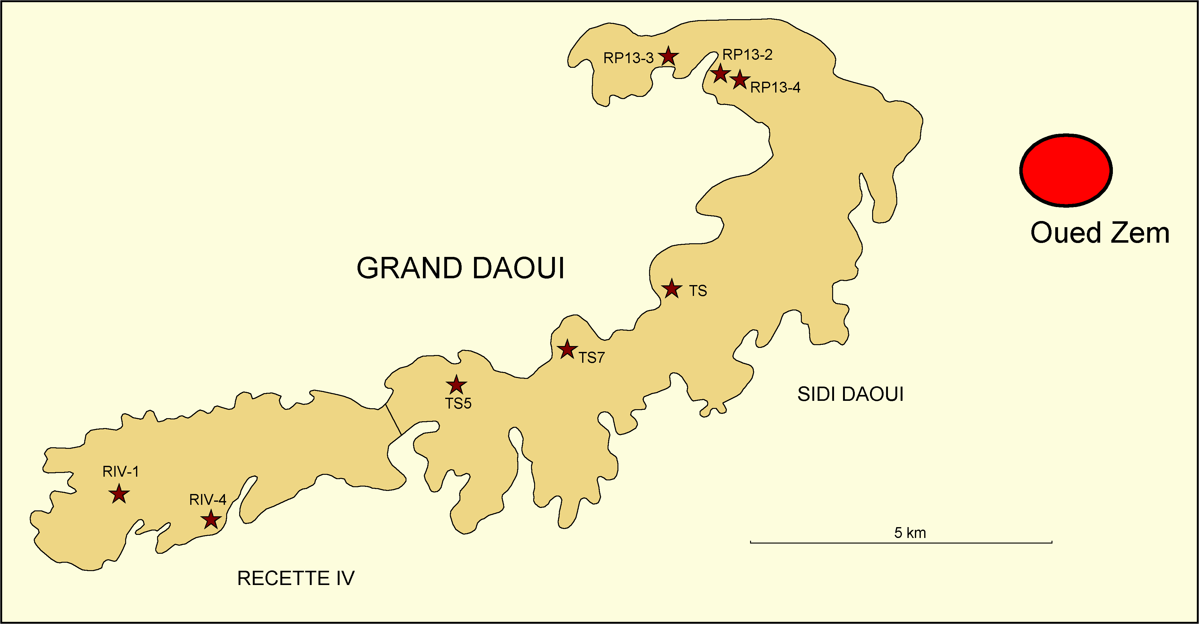 Fossil mammal sites at Grand Daoui, Ouled Abdoun basin, Central Morocco, Paleogene, redrawn after: Emmanuel Gheerbrant, Jean Sudre, Henri Cappetta, Cécile Mourer-Chauviré, Estelle Bourdon, Mohamed Iarochene, Mbarek Amaghzaz and Baâdi Bouya: Les localités à mammifères des carrières de Grand Daoui, bassin des Ouled Abdoun, Maroc, Yprésien: premier état des lieux. Bulletin de la Societe Geologique de France 174 (3), 2003, pp. 279–293 (fig. 3)